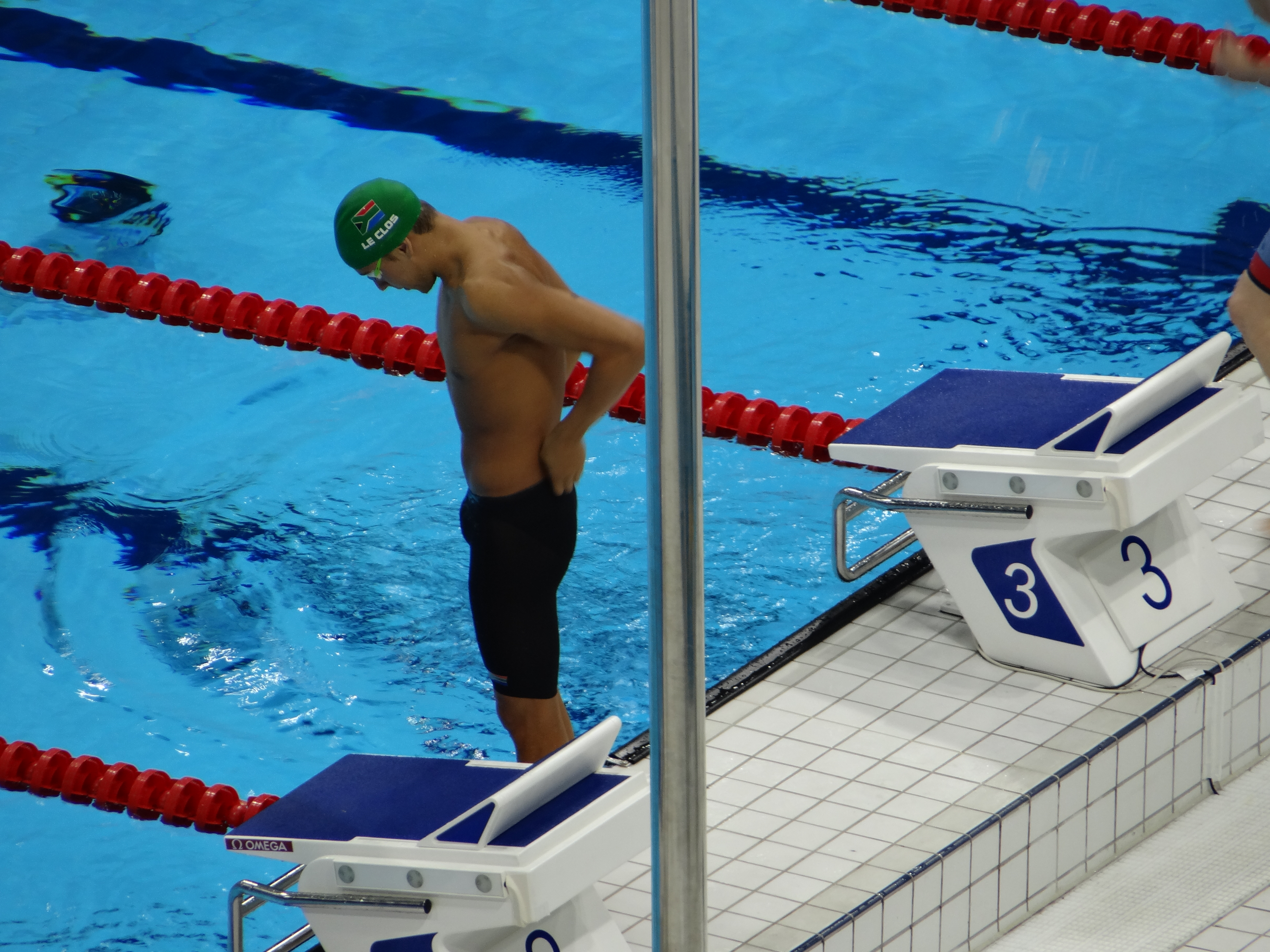 London 2012 Olympics Le Clos South Africa. Men's 200m Individual Medley heat 3